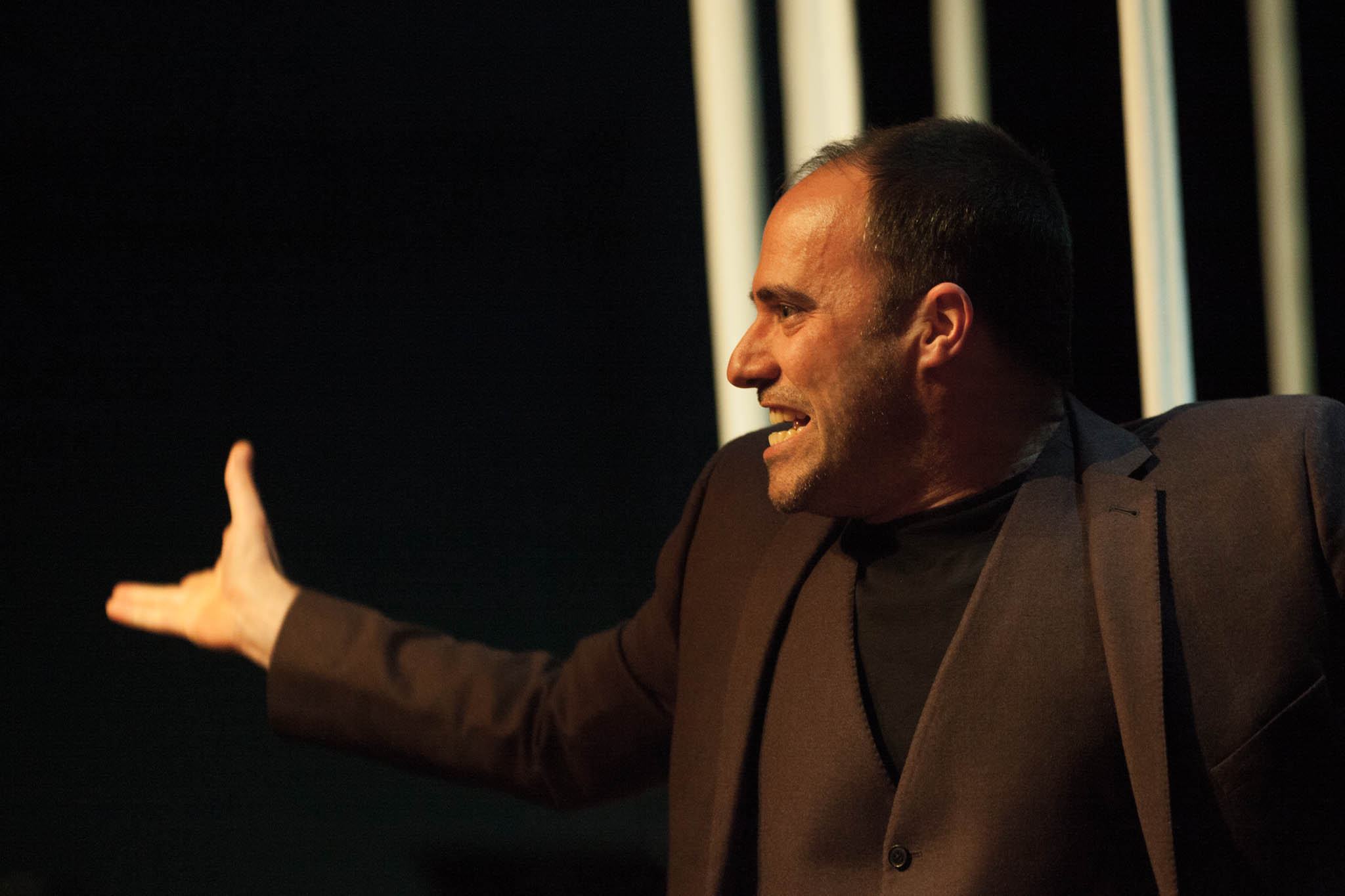 British baritone Leigh Melrose performing Eight Songs for a Mad King at Nordland Music Festival 2014 in Bodø, Norway